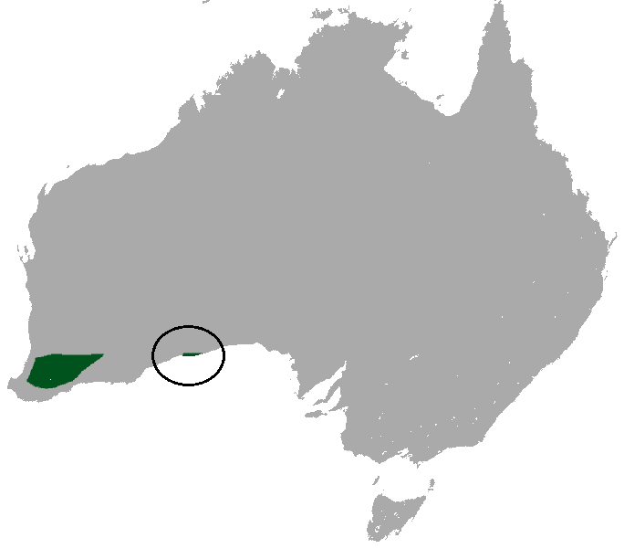 Gilbert's Dunnart (Sminthopsis gilberti) range